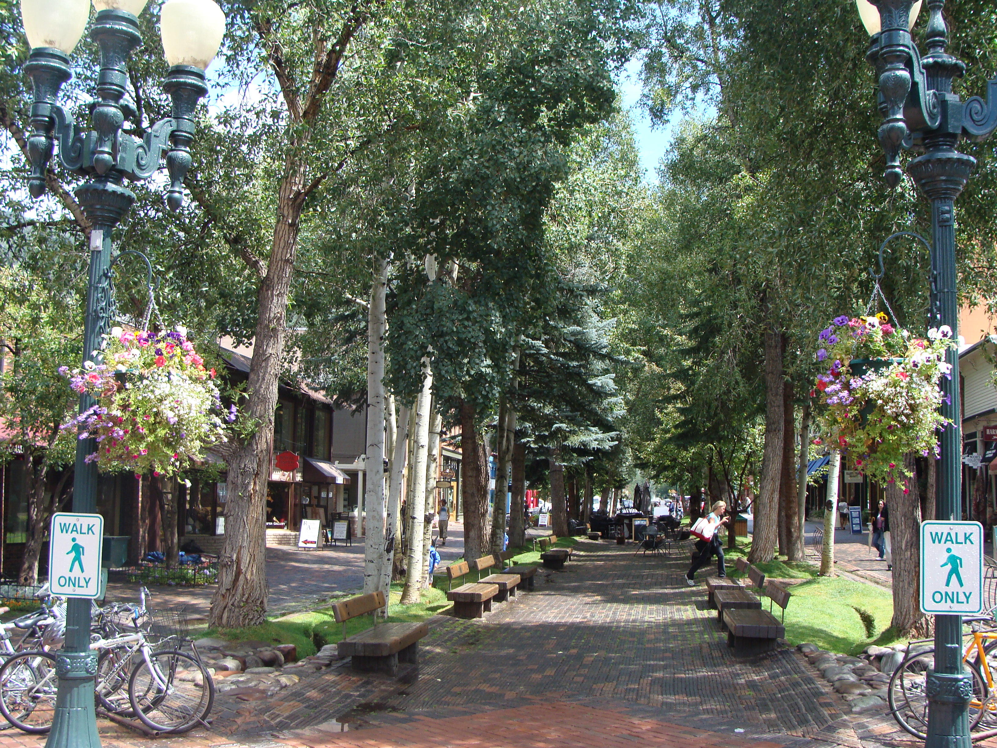 Aspen, Colorado, August 2010.